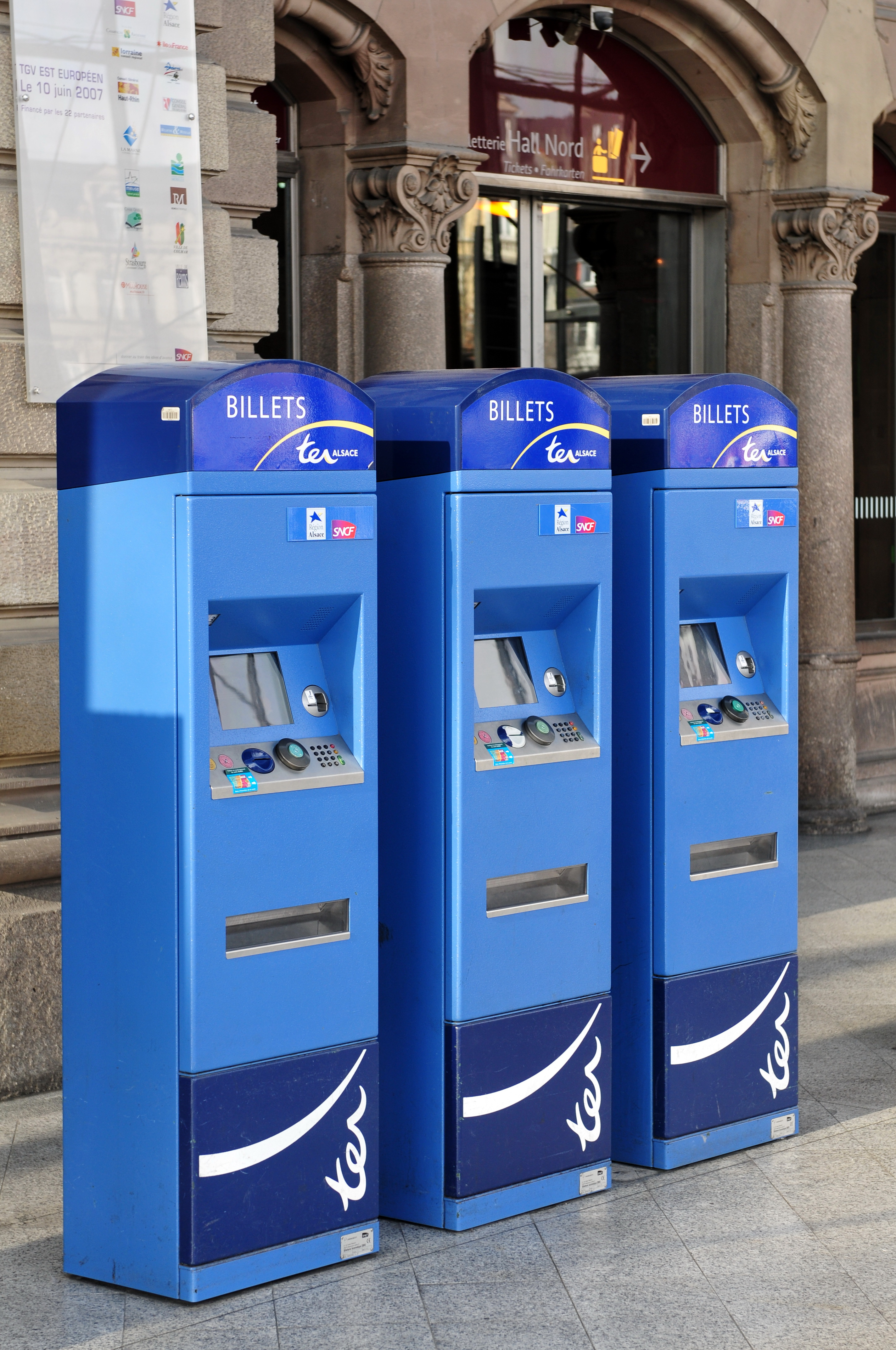 ticket automat in Strasbourg Train Station European Parliament 2014 3.–7. February 2014, StrasbourgThis photo has been created within the project "WIKI loves parliaments / European Parliament". Usage and Help If you have any questions concerning this picture or how to use it, feel free to